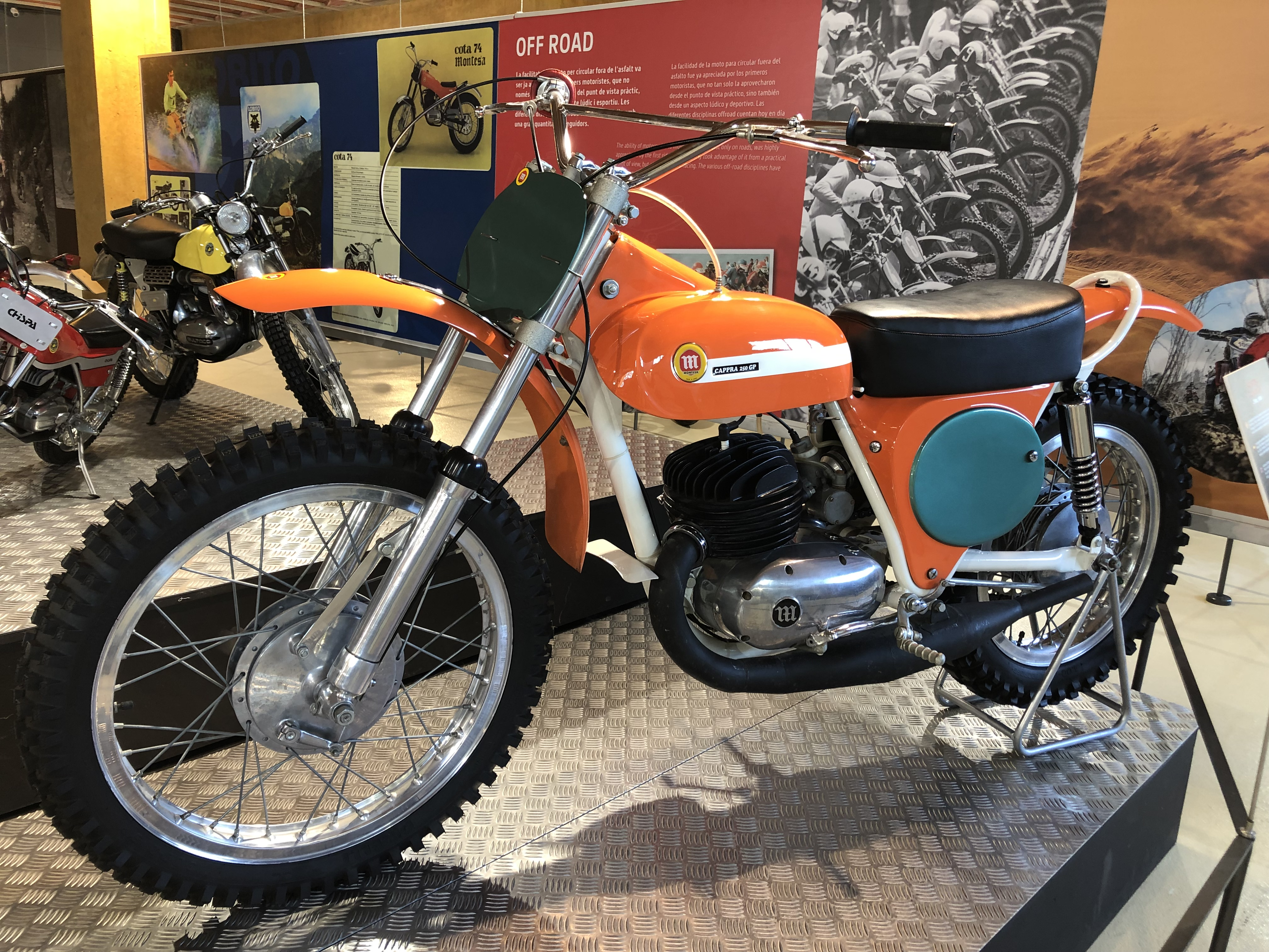 Montesa Cappra 250 GP (1968), Mod. 53M, 247.6 cc